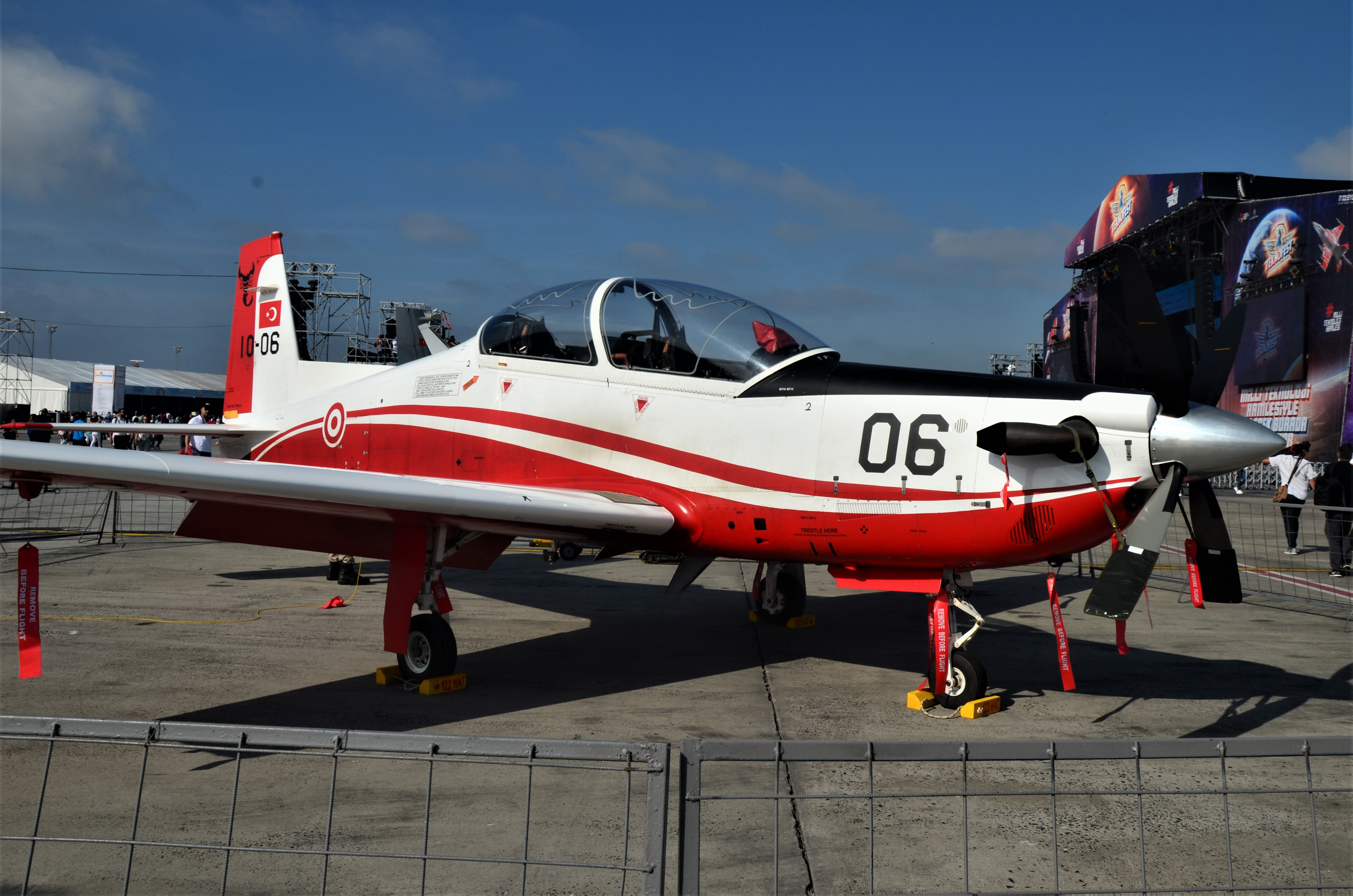 KAI KT-1T trainer of the Turkish Air Force at Teknofest 2019